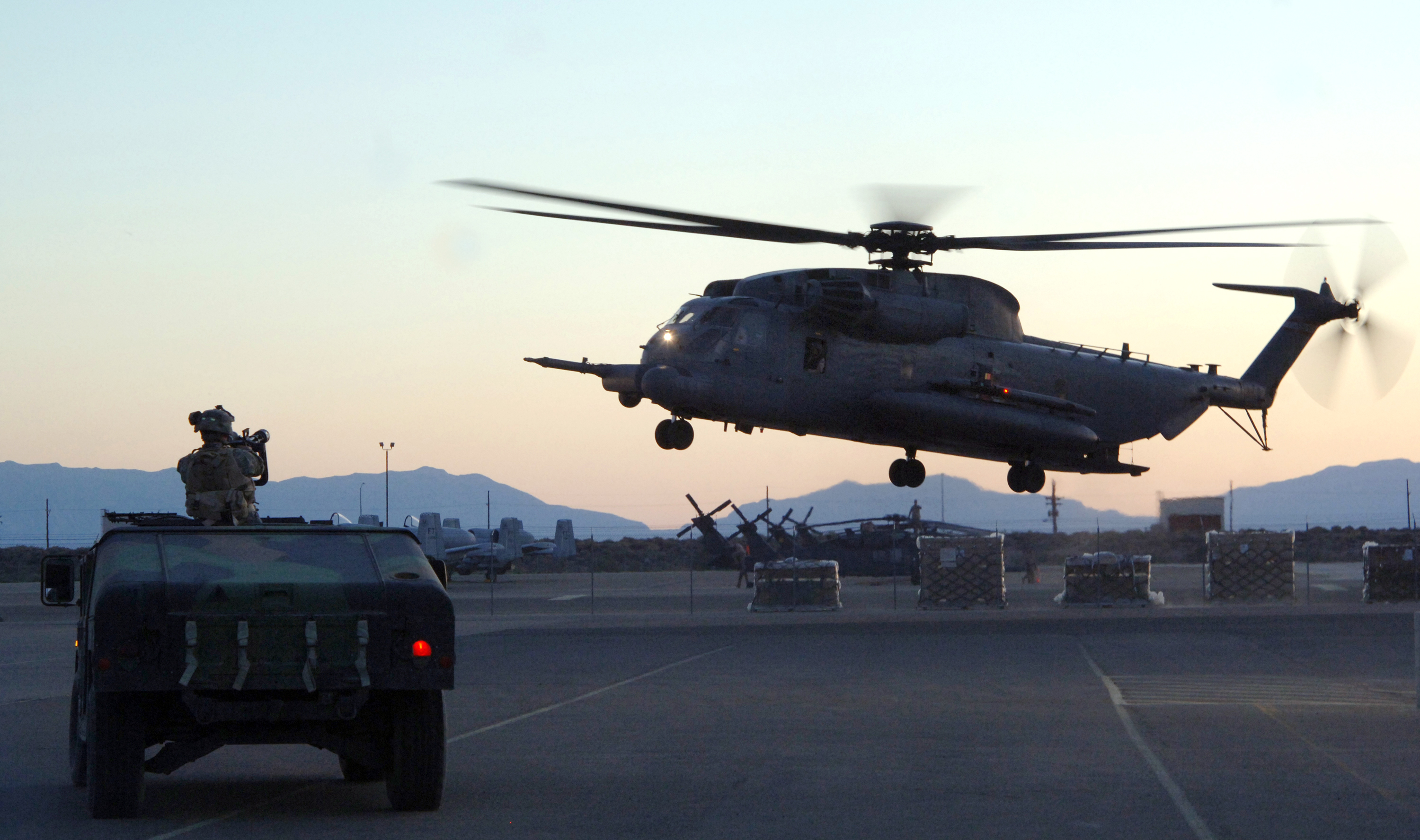 An Airman fills the role of a movie extra on the set of Transformers during filming at Holloman Air Force Base, N.M., on May 30. The MH-53 landing represents the Decepticon character Blackout in alternate mode. The movie is scheduled for release in July 2007.